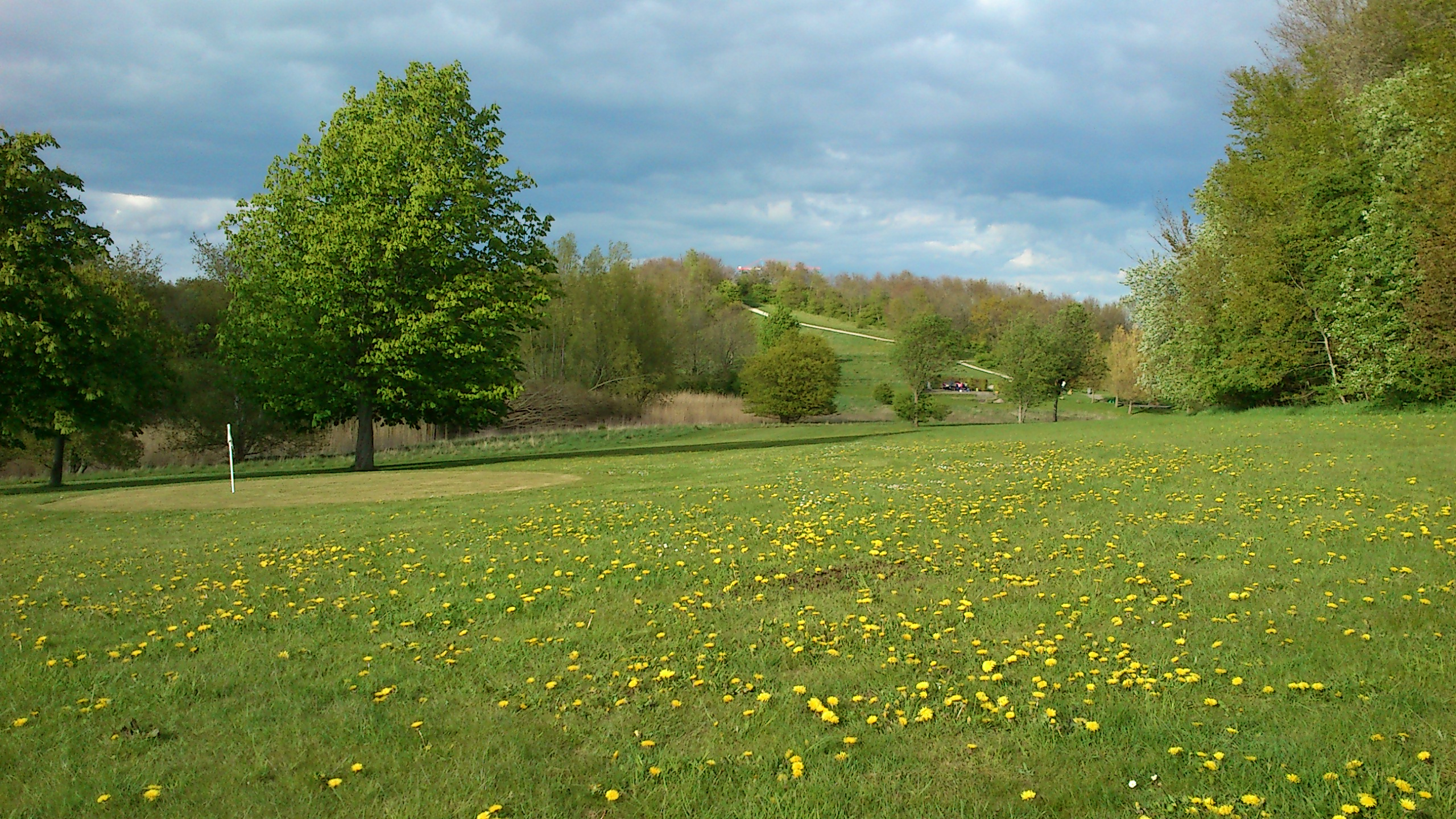 Marienlystparken